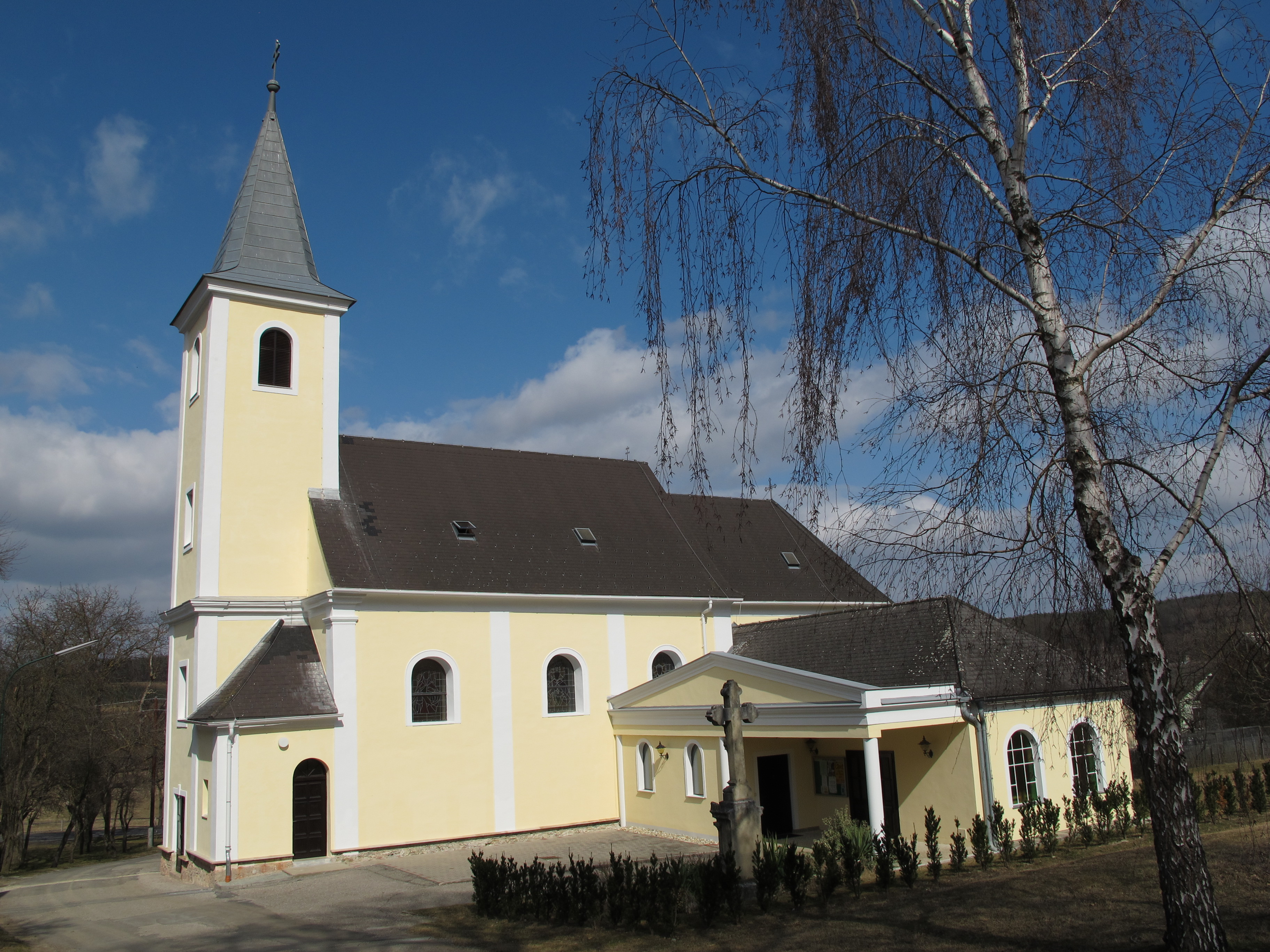 Saint Catherine of Alexandria parish church in St. Kathrein im Burgenland